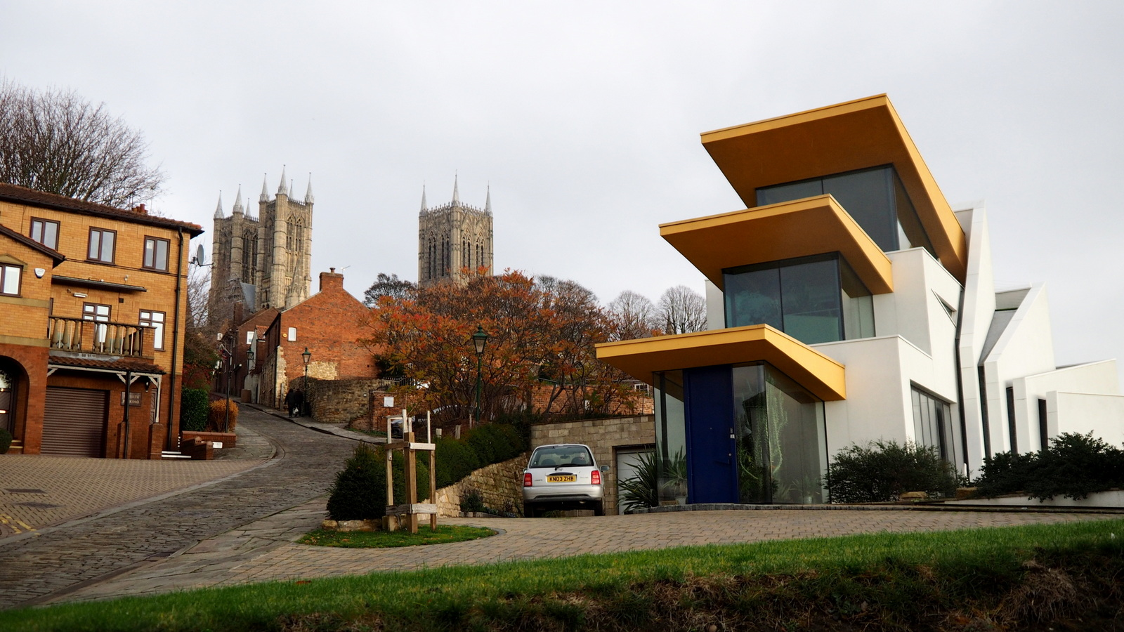 Architectural juxtaposition